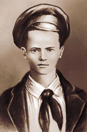 Pavlik Morozov (November 14, 1918 – September 3, 1932), Soviet pioneer Hero.